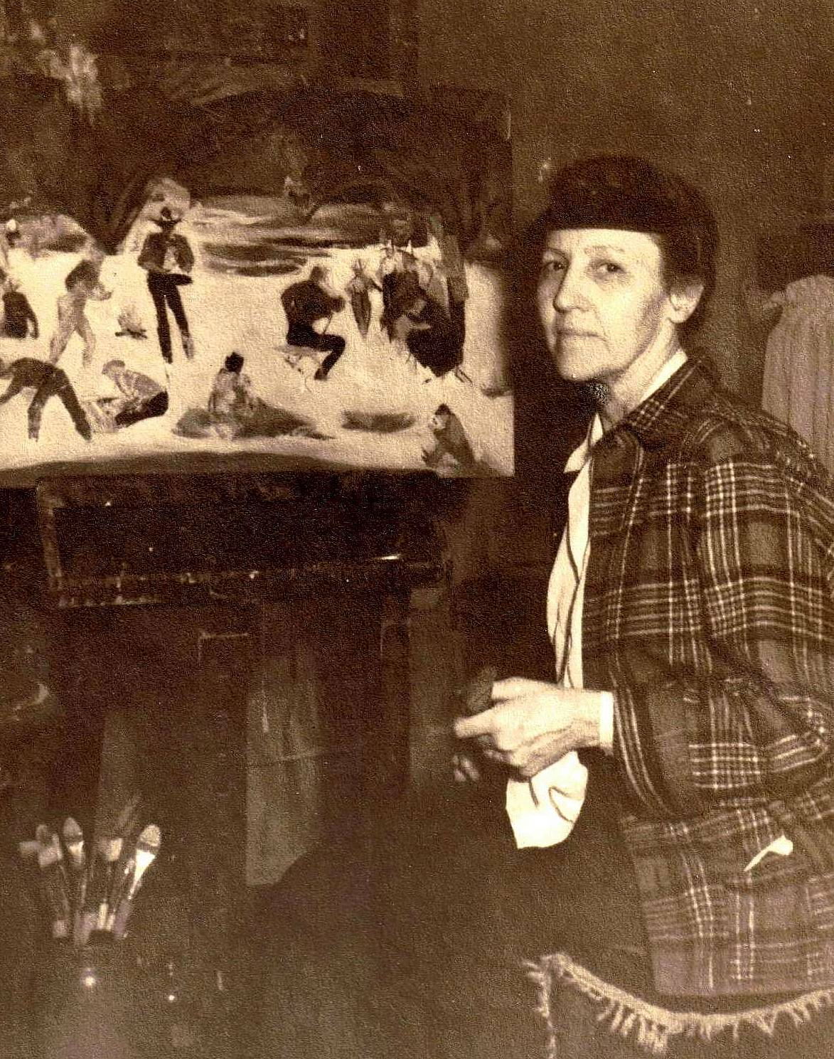 May Gilruth in her Chicago studio circa 1946